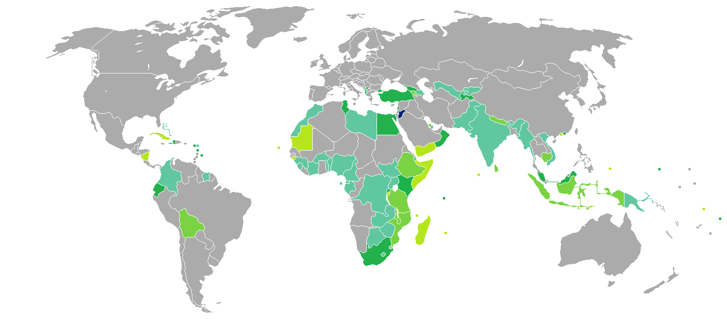 Visa requirements for Jordanian citizens Jordan Visa free access Visa on arrival eVisa Visa available both on arrival or online Visa required